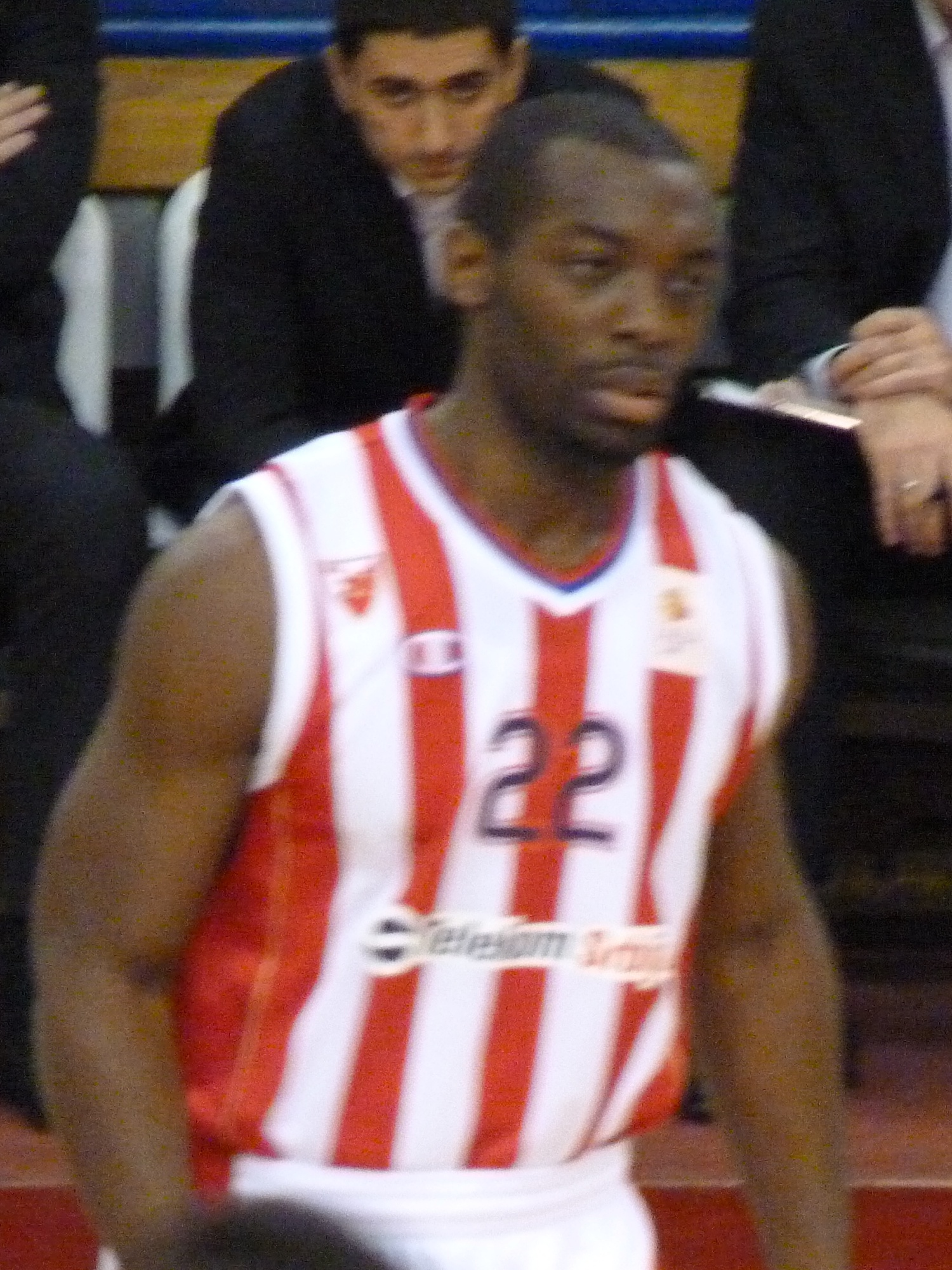 Charles Jenkins in Red Star